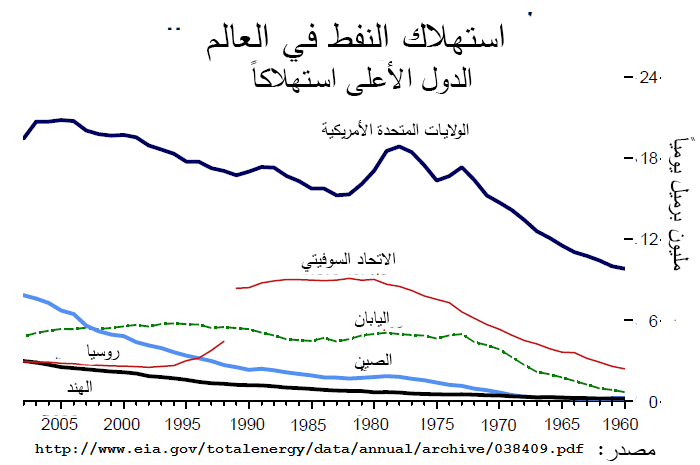 EIA petroleum consumption of selected nations from Annual Energy Review